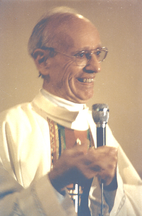 Don Renato Roberti, priest and italian partisan (1921-1997)